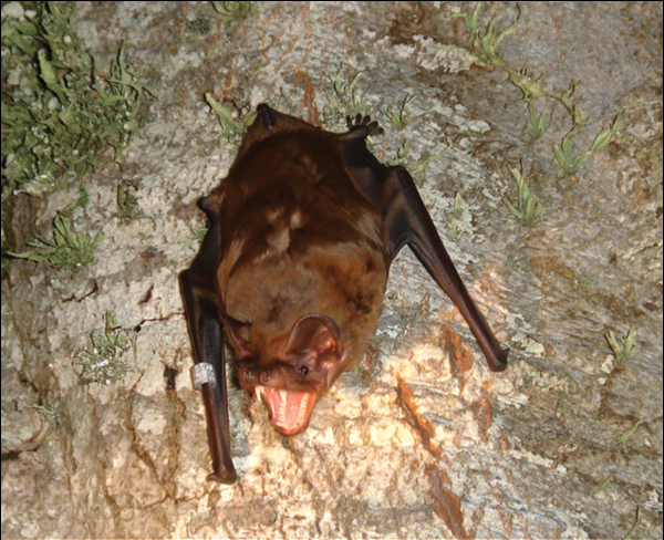 Nyctalus lasiopterus showing its impressive teeth to the researchers